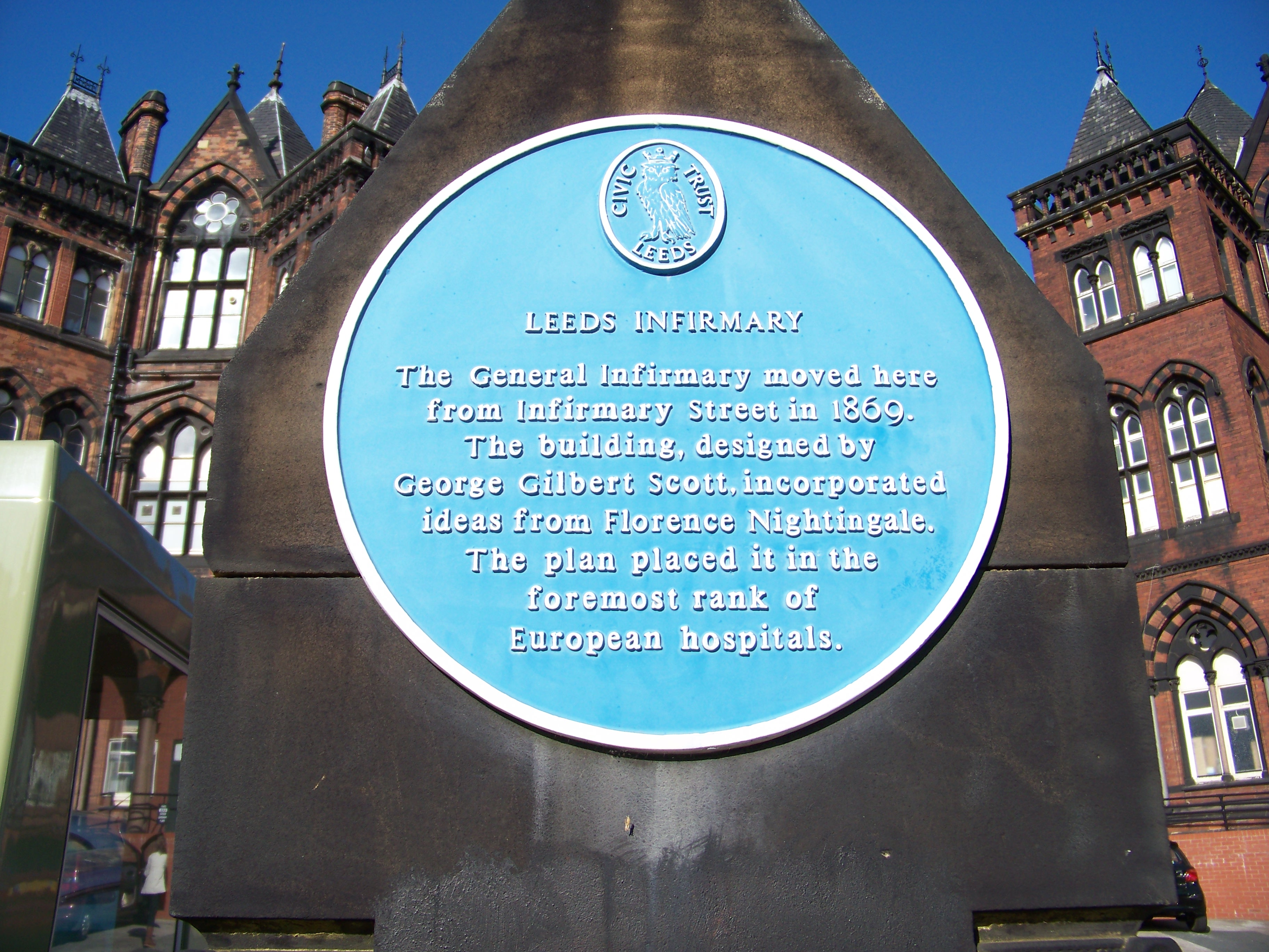 The blue plaque at the Leeds General Infirmary. Taken on the afternoon of Saturday the 3rd October 2009.